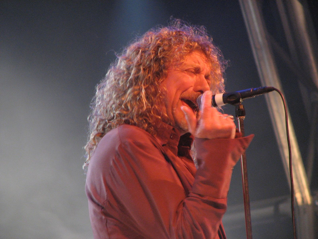 Robert Plant and the Strange Sensation at the Green Man Festival - 18.08.2007